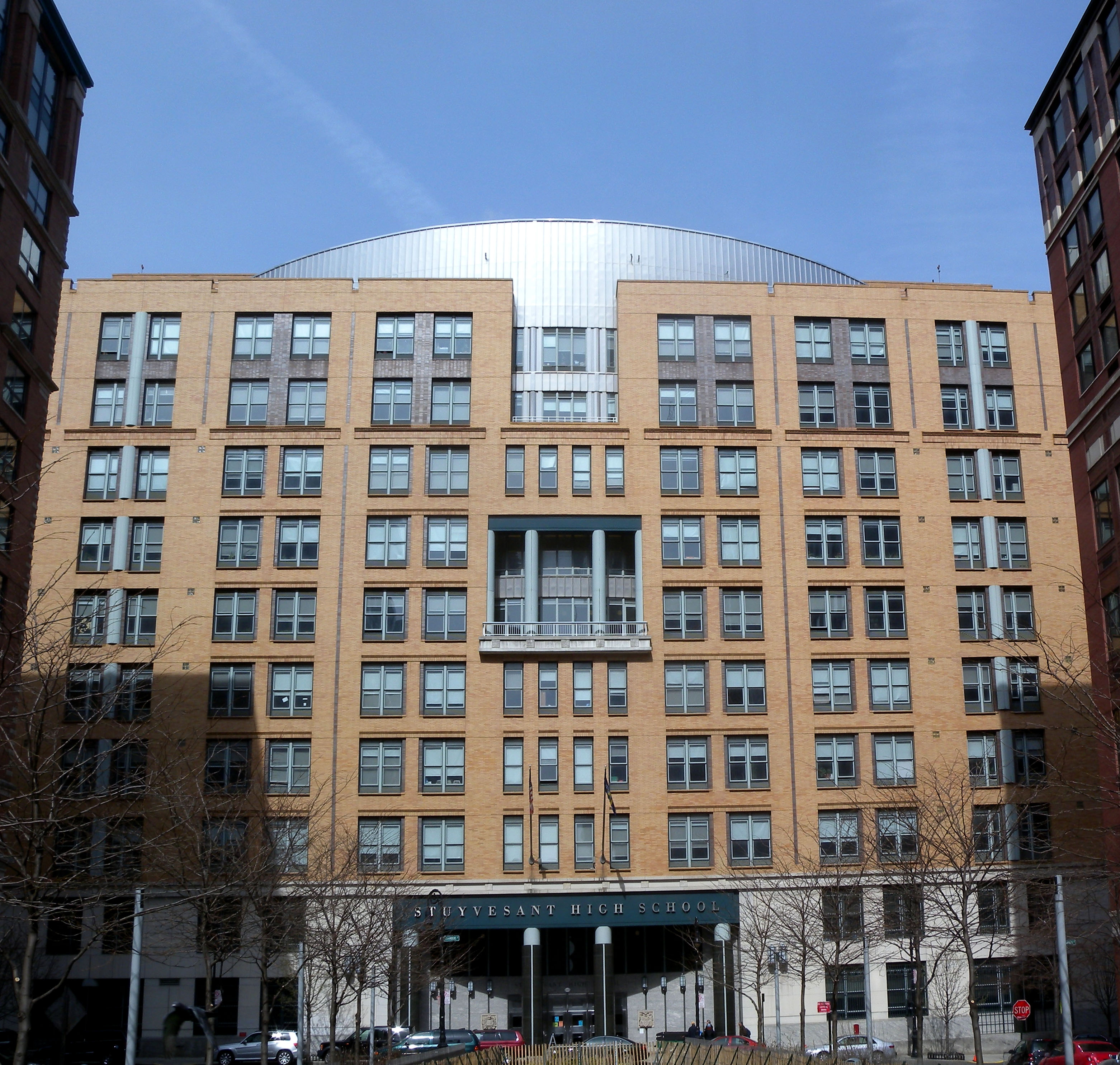 Looking north at Stuyvesant High School on a sunny midday. ZIP 10007.